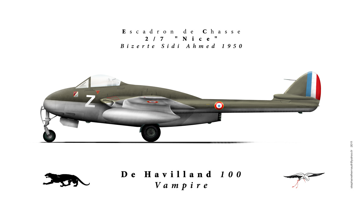 DH 100 Vampire Mk5 Fench Air Force